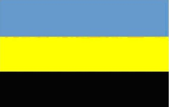 city flag of Lobeda